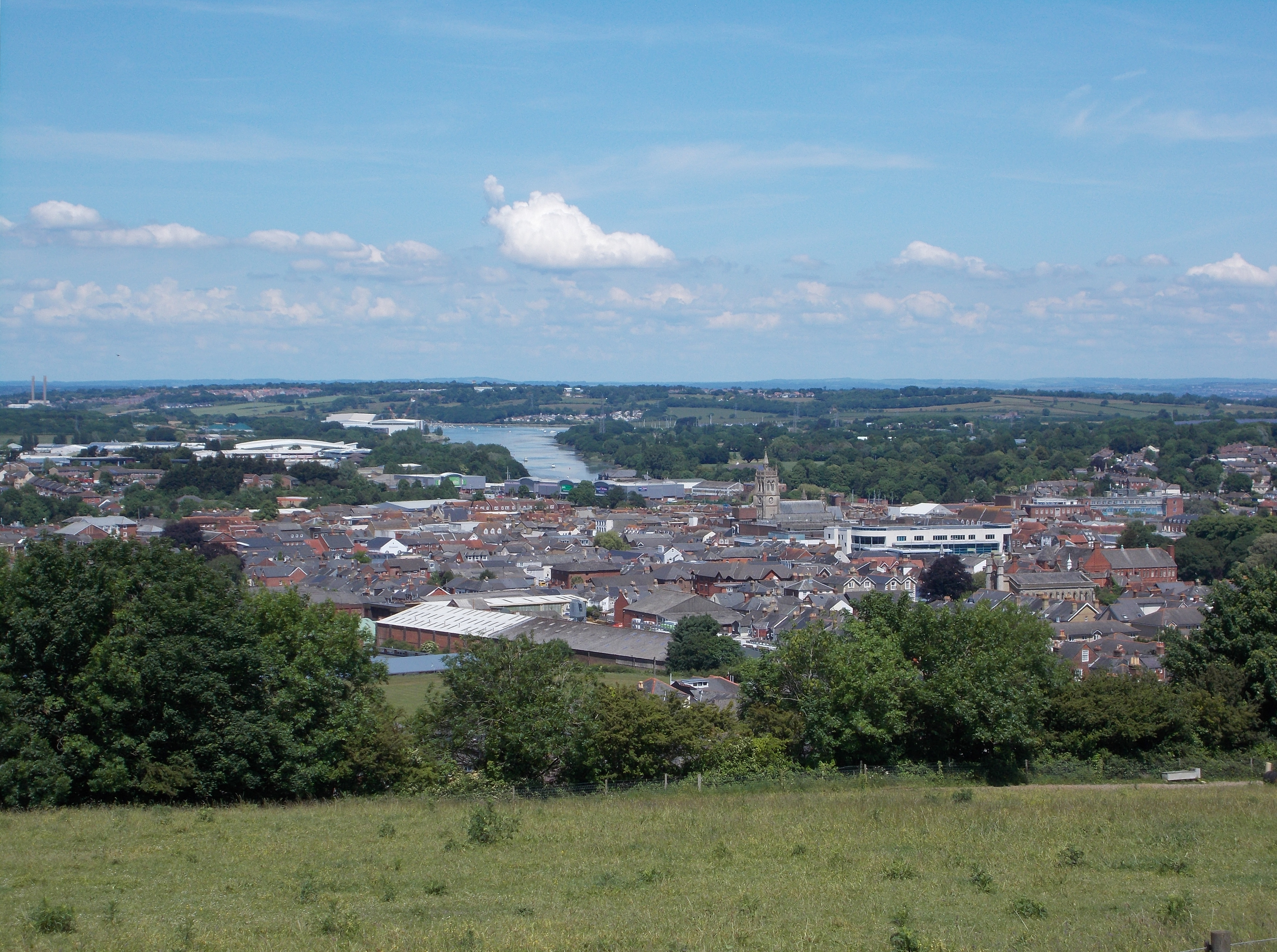 View of Newport, Isle of Wight, UK, looking approximately north from Mount Joy